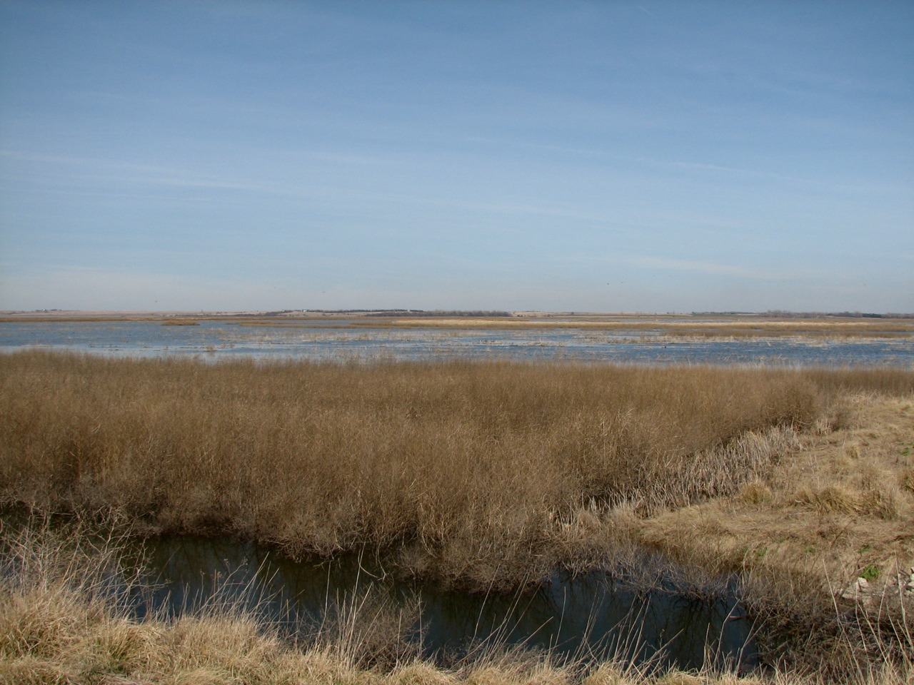 The shallow marshes at Cheyenne Bottoms in Kansas. Nature reserve and Ramsar site of wetlands protection.